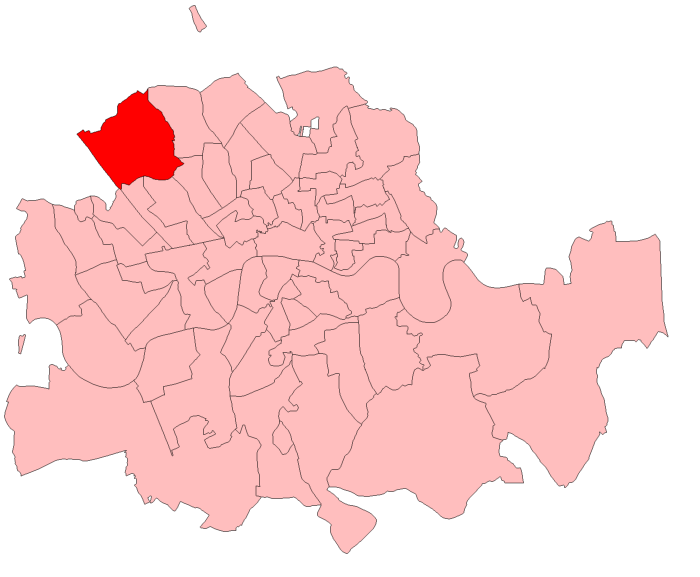 A map of Hampstead constituency within the Metropolitan Board of Works area, as it existed from 1885 to 1918.